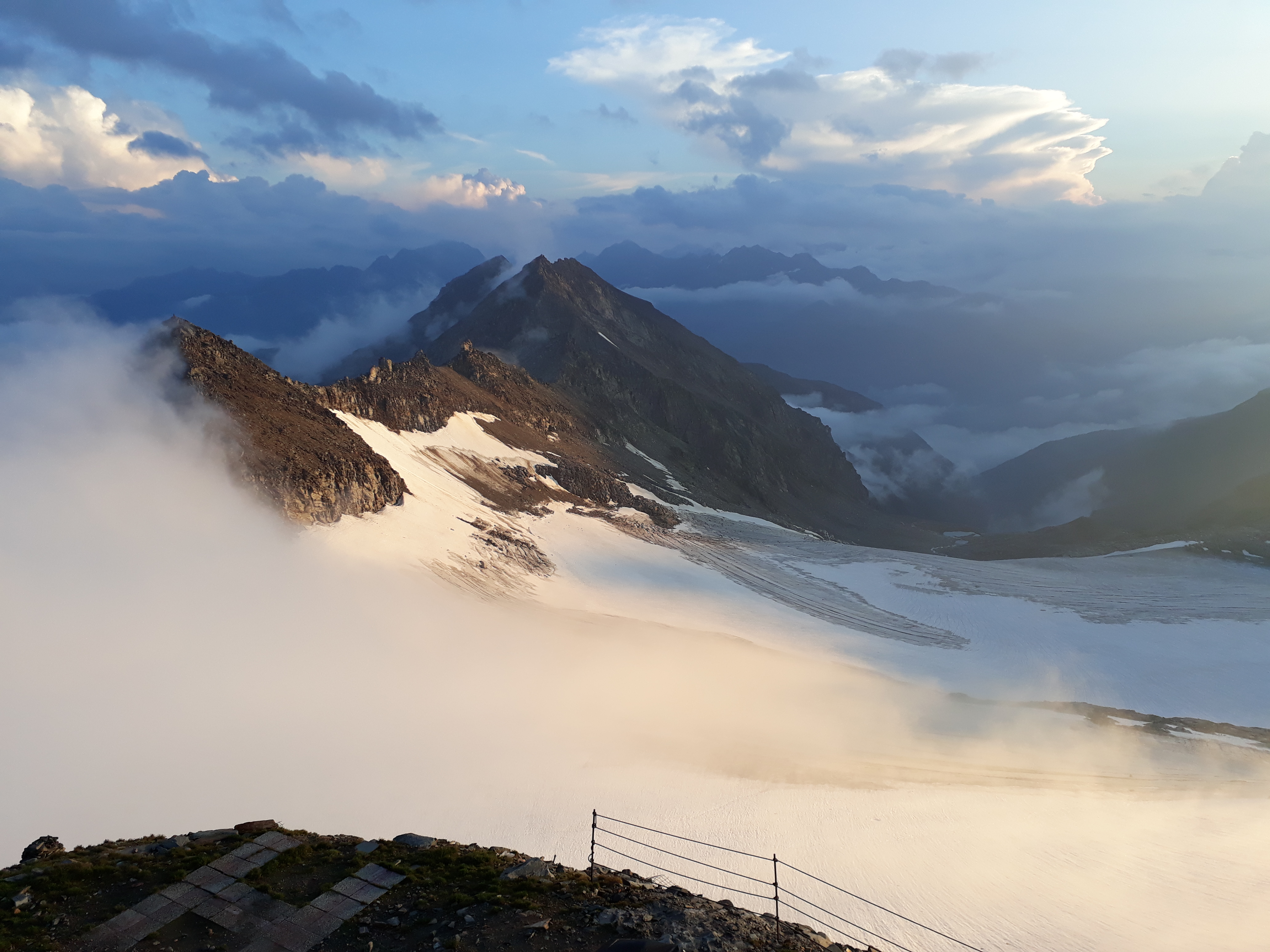 view from Zittelhaus (Austria, Hoher Sonnblick) 07/23/2017